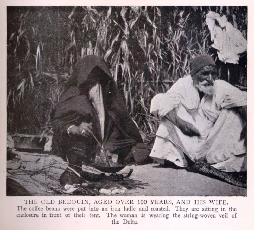 An old man and veiled woman sitting in front of a small fire. Black- and- white photograph.